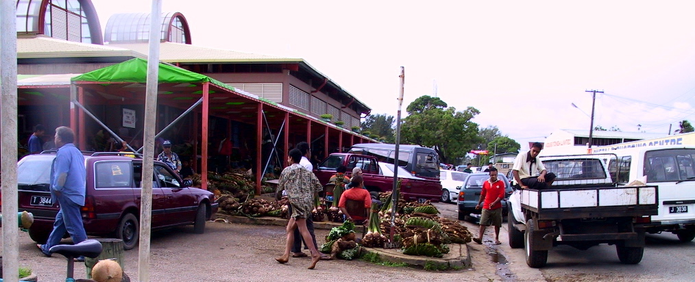 The market in the centre of Nukualofa, Tonga